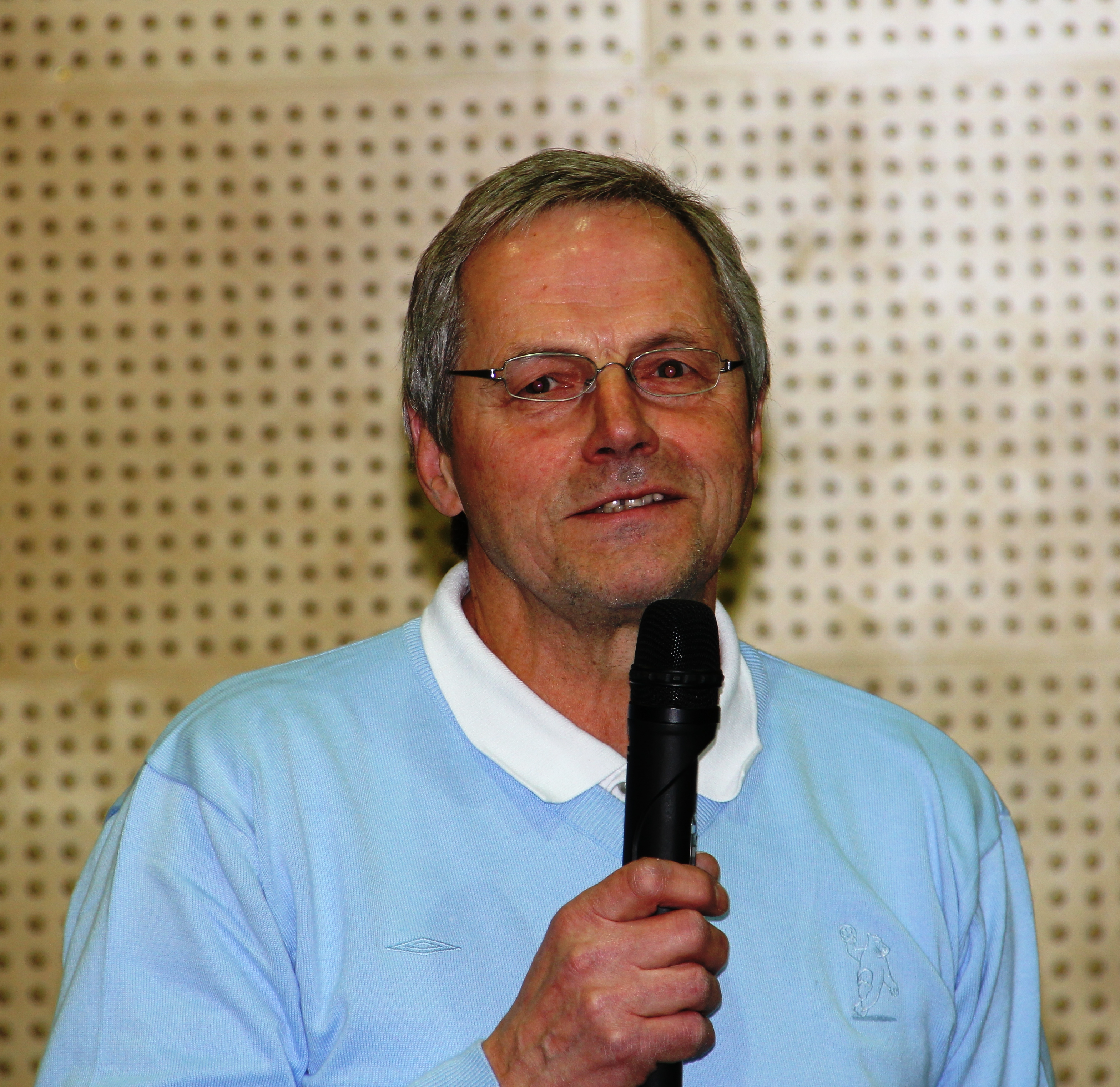 Per_Otto_Furuseth, Secretary General of the Norwegian Handball Federation